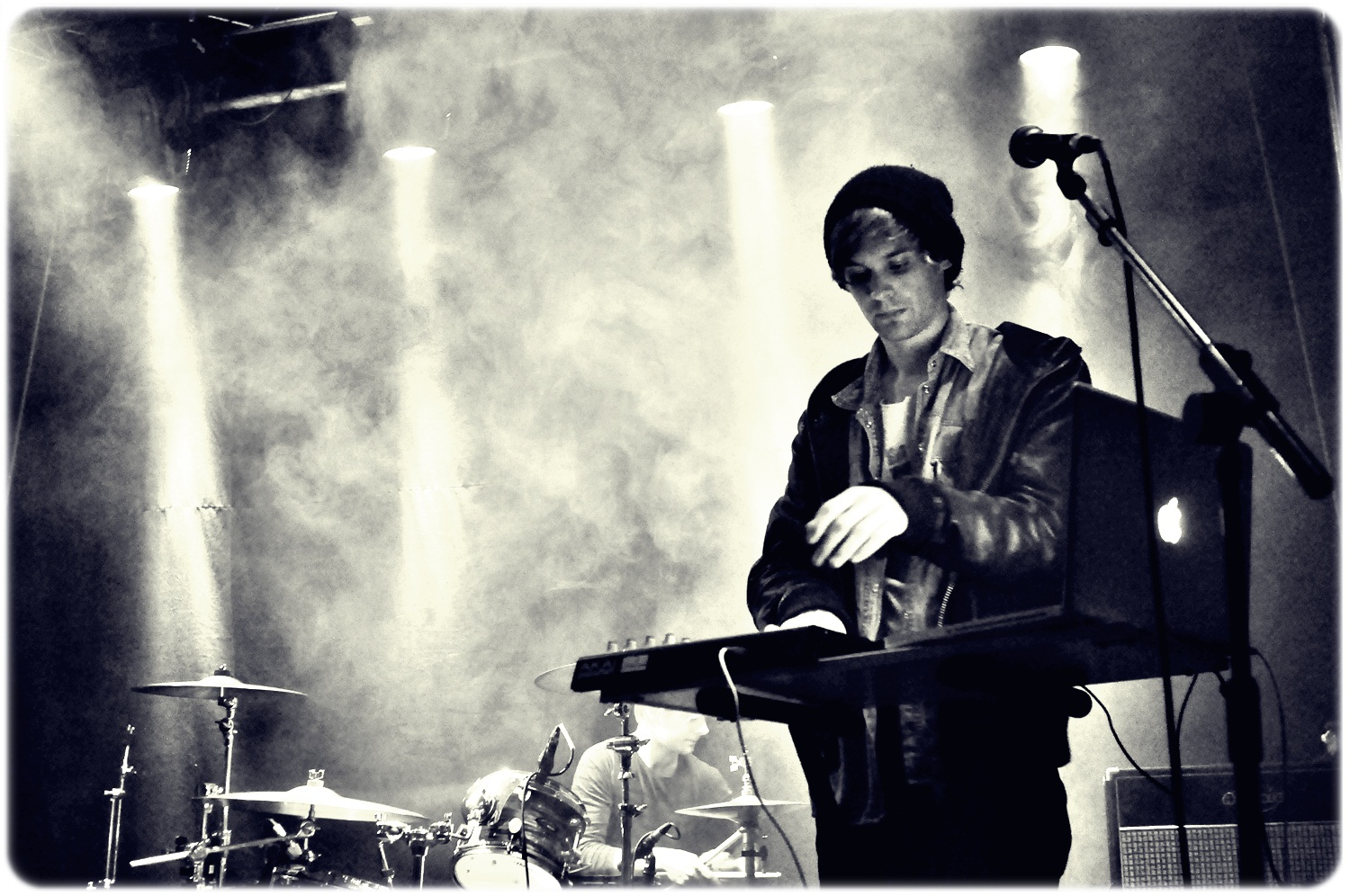 Proxies headlining O2 Academy Newcastle in January 2011.